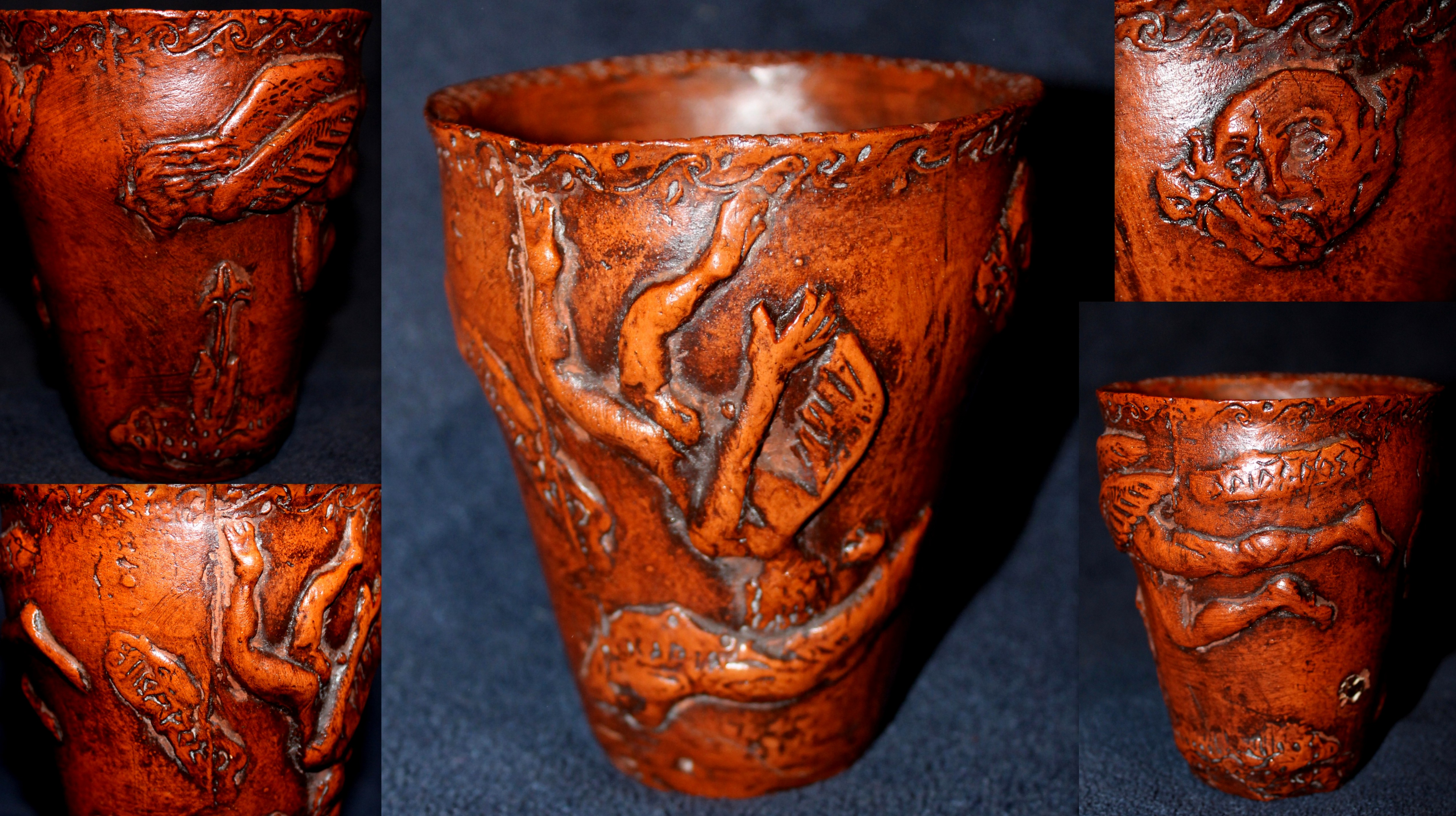 Daedalus and Icarus flight over the island Icaria ancient Roman-Greece red plastic relief pottery Beaker